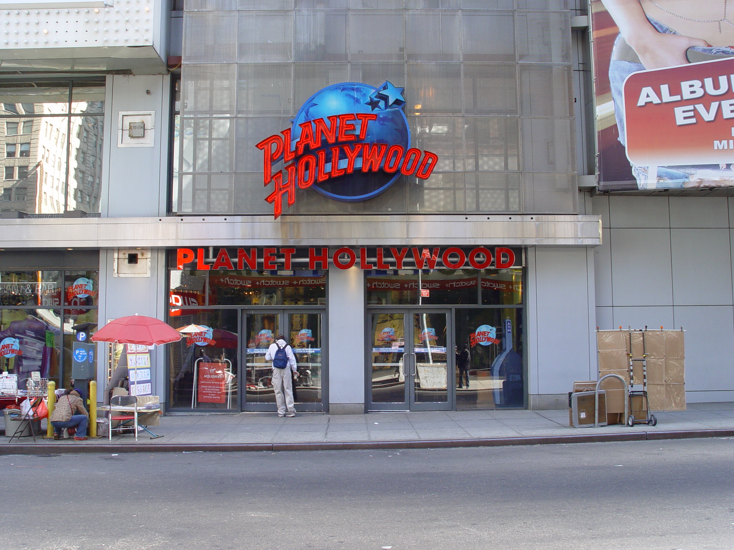 Fotografiert von Martin Dürrschnabel Planet Hollywood in New York City.